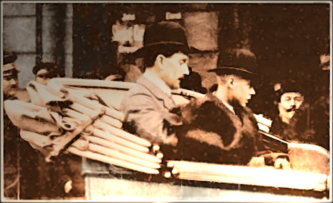 William G. S. Cadogan and the Prince of Wales in Germany